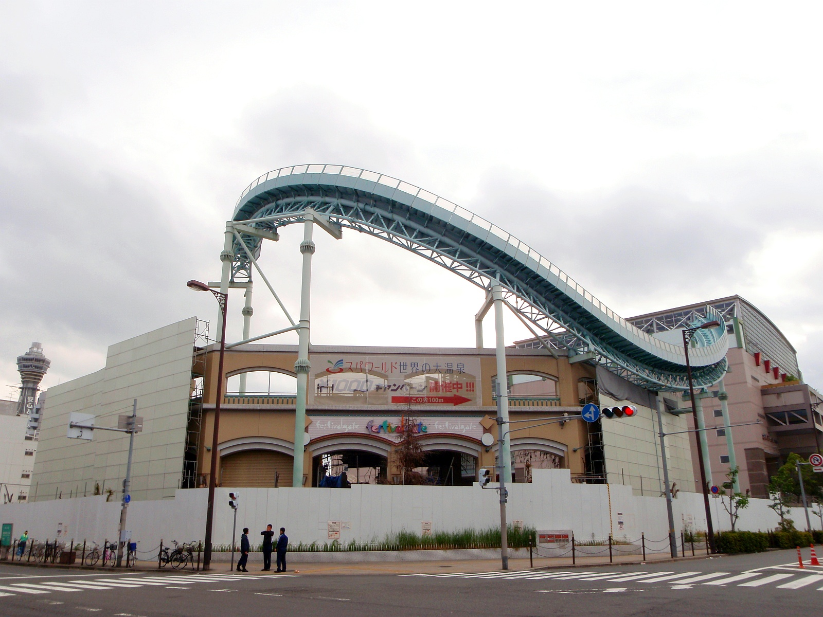 Festivalgate during its demolishment.